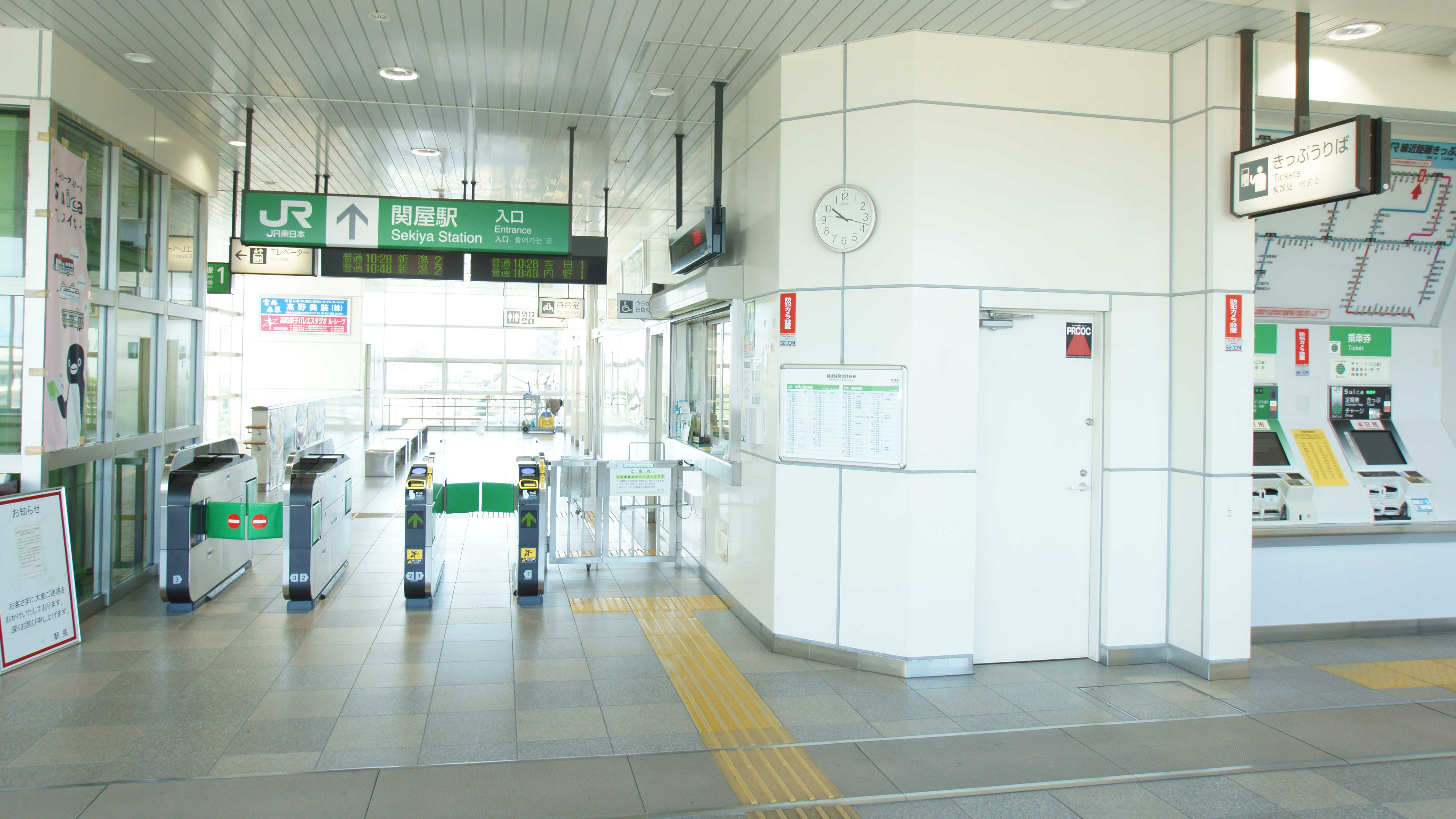 The ticket barriers at Sekiya Station in Niigata Prefecture, Japan